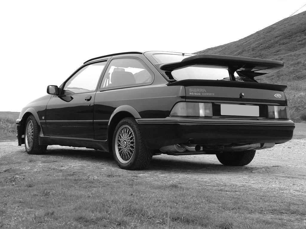 Image showing 1987 Ford Sierra RS 500 Cosworth number (337 of 500) in the Trough of Bowland, Lancashire, England. Photo taken by Rupert C Kent and released into the Public Domain.